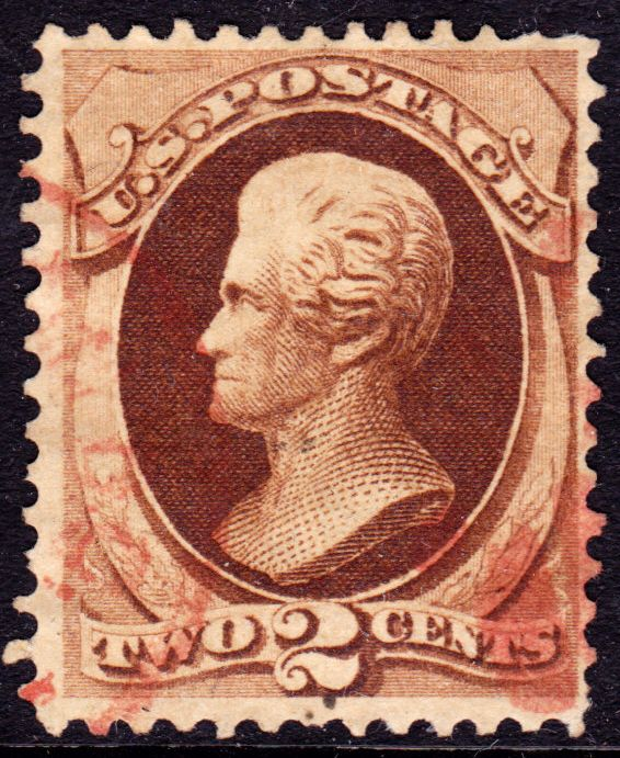 Andrew_Jackson_1873_Issue-2c.jpg